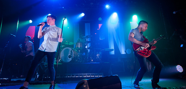 Fun performing at the Music Hall of Williamsburg in Brooklyn in 2012